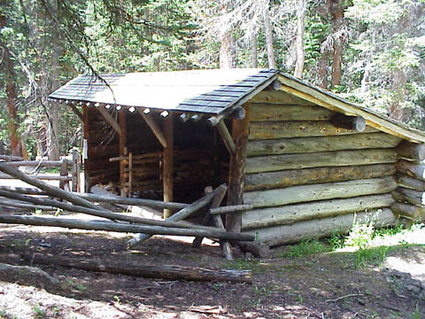 Front and side of the Willow Park Stable, located on Trail Ridge Pass in the Larimer County portion of Rocky Mountain National Park in the U.S. state of Colorado. Built in 1926, the stable is listed on the National Register of Historic Places.